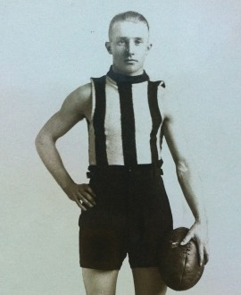 Photograph of Ted Baker from 1922-1923